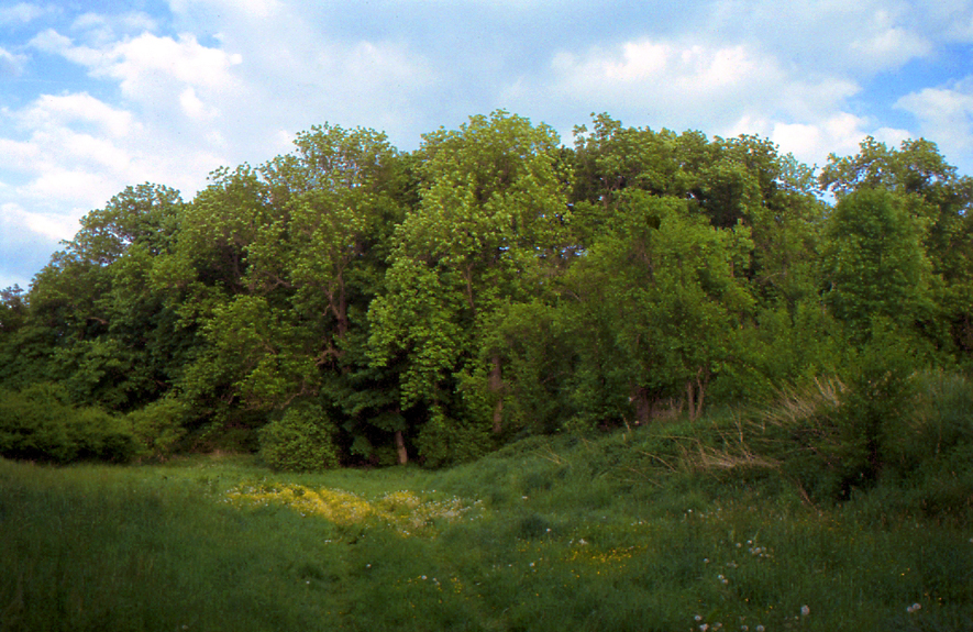 Moat and embankment of the ruined castle Calenberg in the south of the town Pattensen in Lower Saxony, Germany.